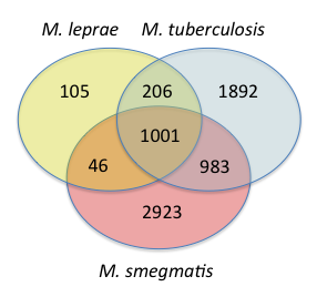 Comparison of protein orthologs in Mycobacterium tuberculosis, M. leprae, and M. smegmatis, Venn diagram.